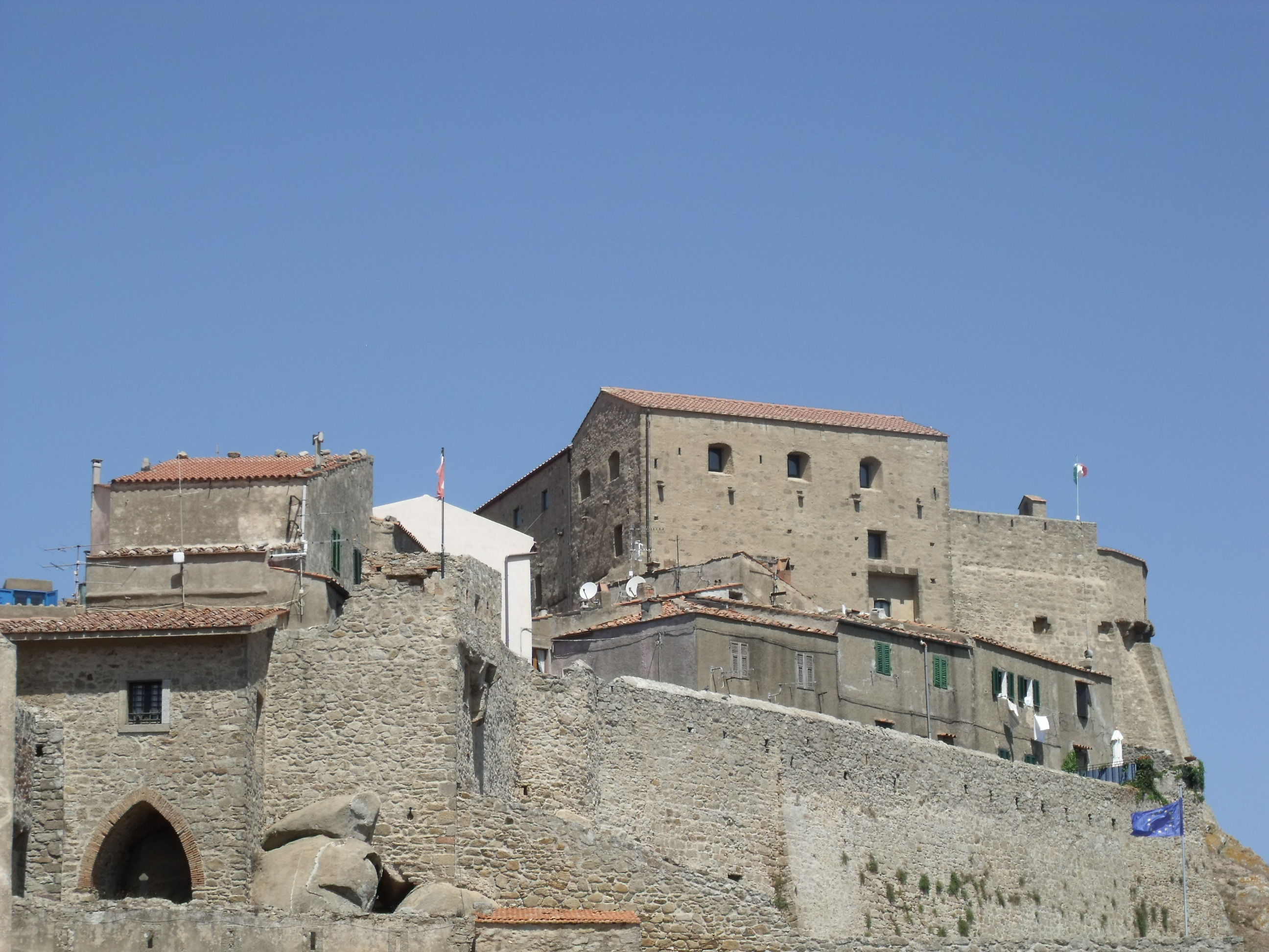 Rocca Pisana in Giglio Castello, Isola del Giglio, Province of Grosseto, Tuscany, Italy